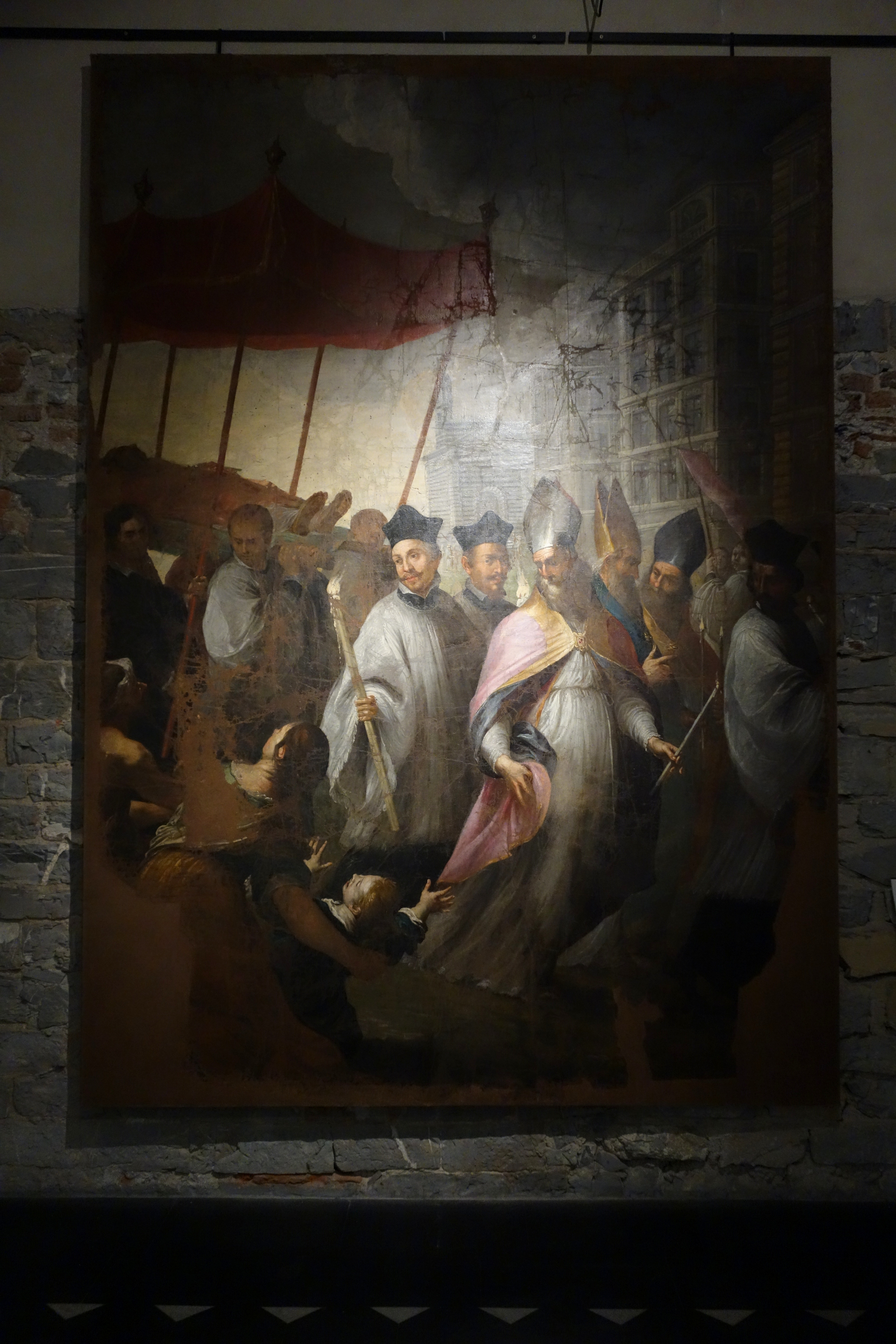 Obsequies of St. Stephen